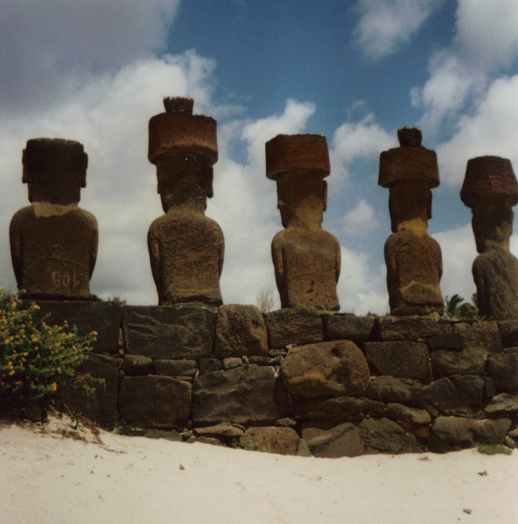 Rapanui, Ahu Nau Nau